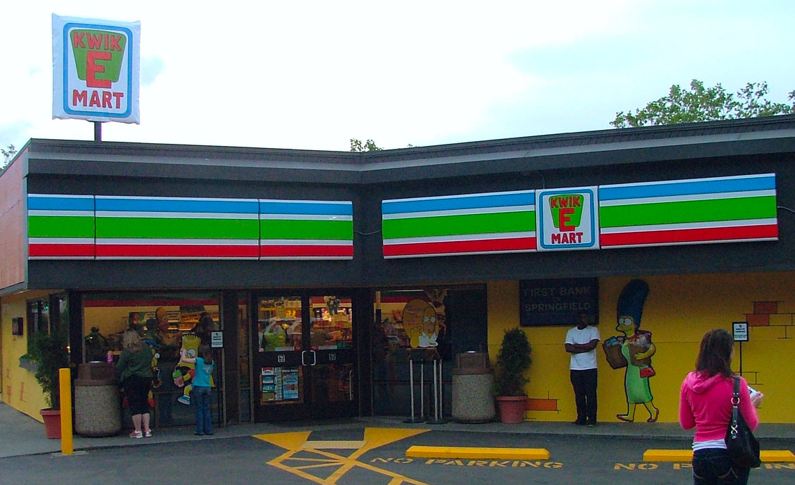 7/11 store transformed into a Kwik-E-Mart in Seattle, Washington, July 1, 2007, as promotional for The Simpsons Movie.